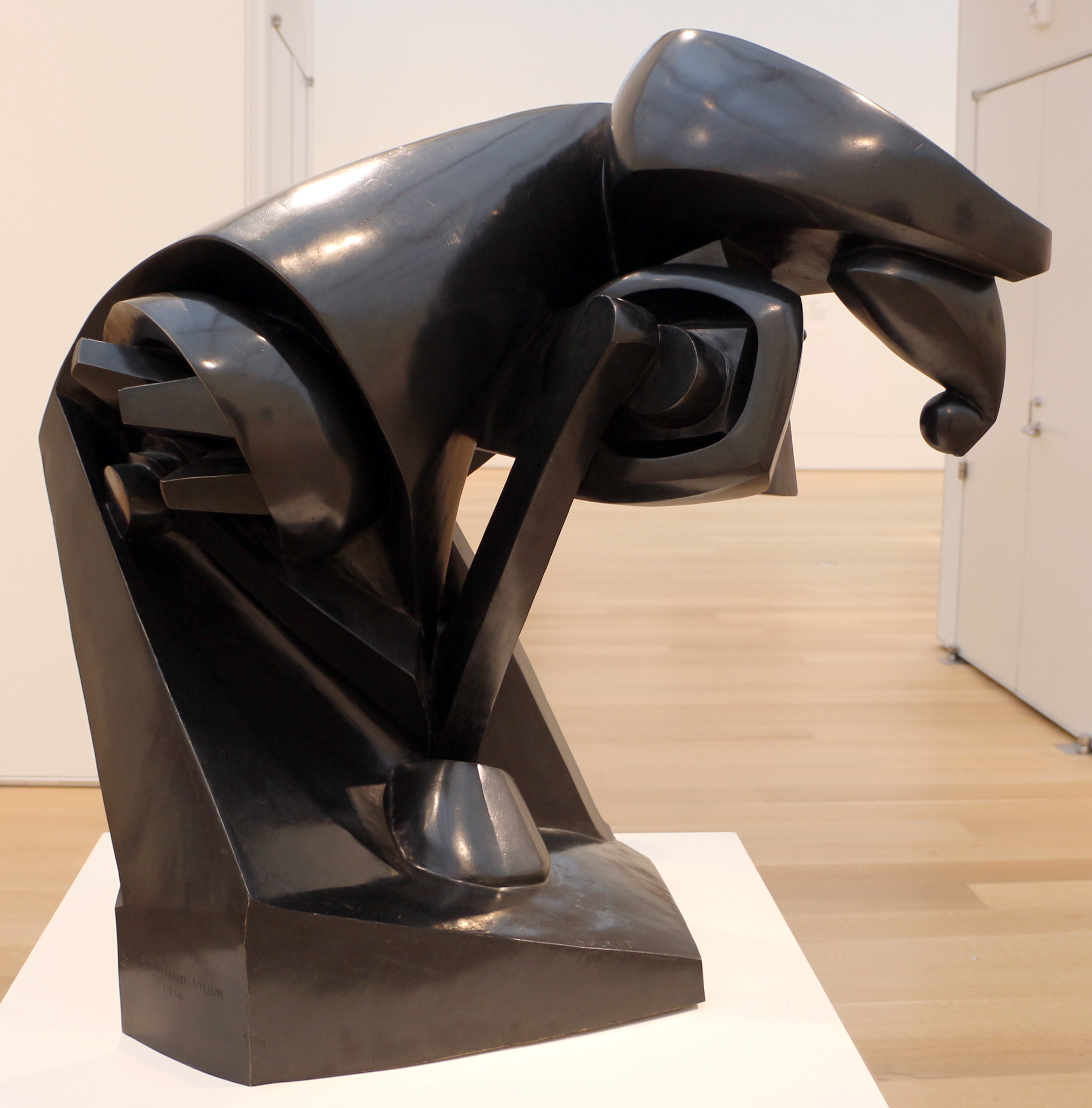 European sculpture in the Art Institute of Chicago